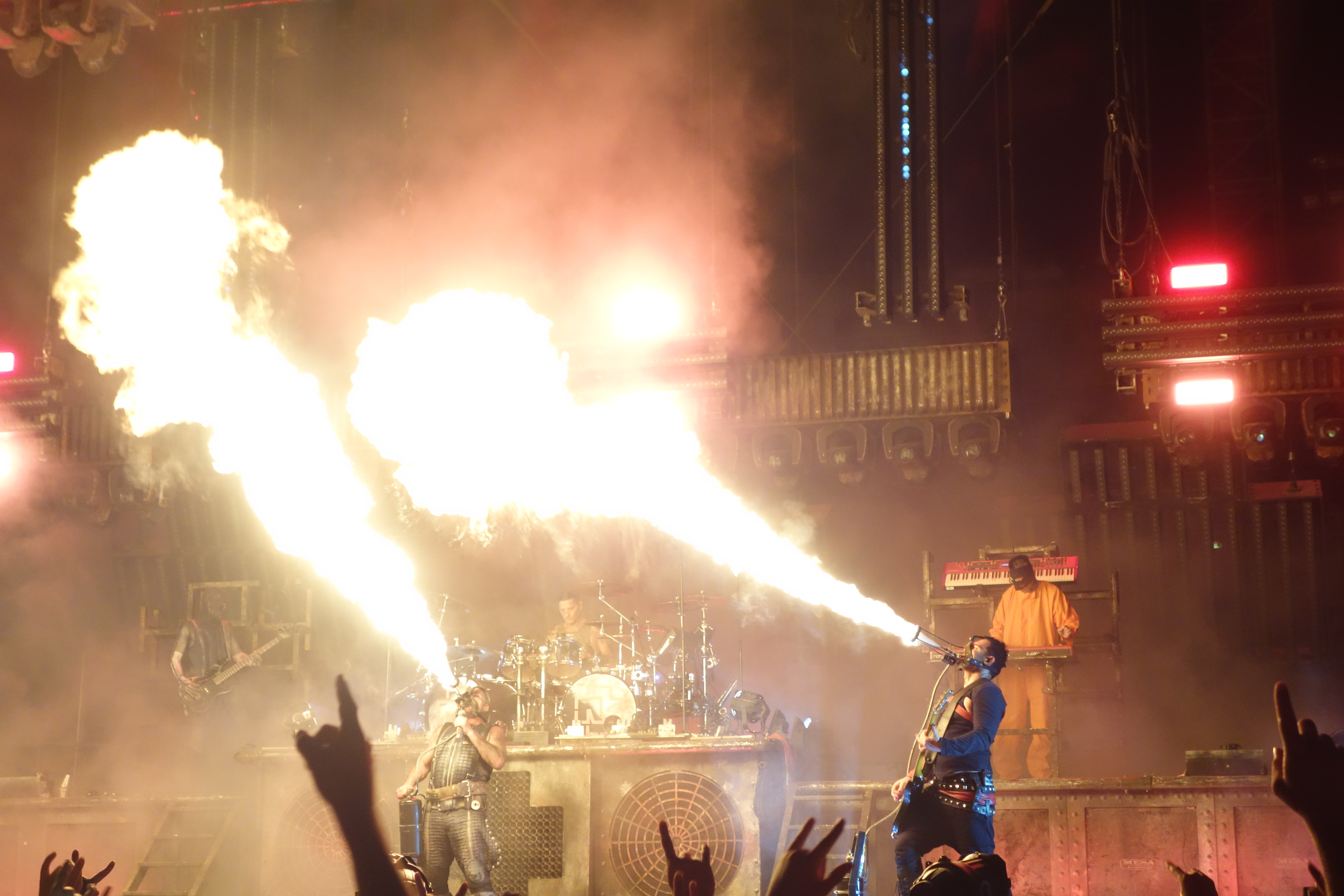 Rammstein in the Arena of Nîmes